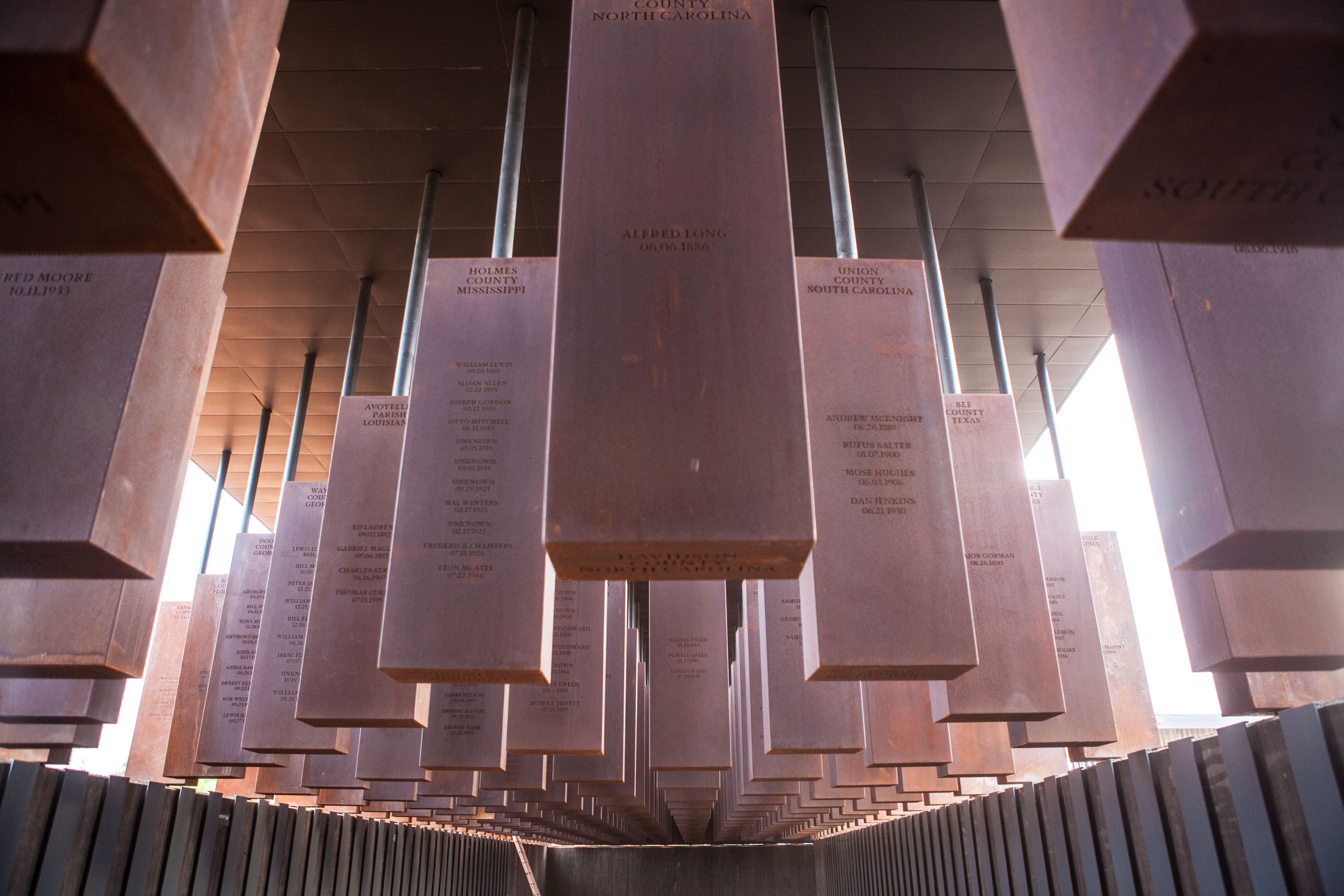 More than 4400 African American men, women, and children were hanged, burned alive, shot, drowned, and beaten to death by white mobs between 1877 and 1950. The National Memorial for Peace and Justice is a sacred space for truth-telling and reflection about racial terror in America and its legacy.